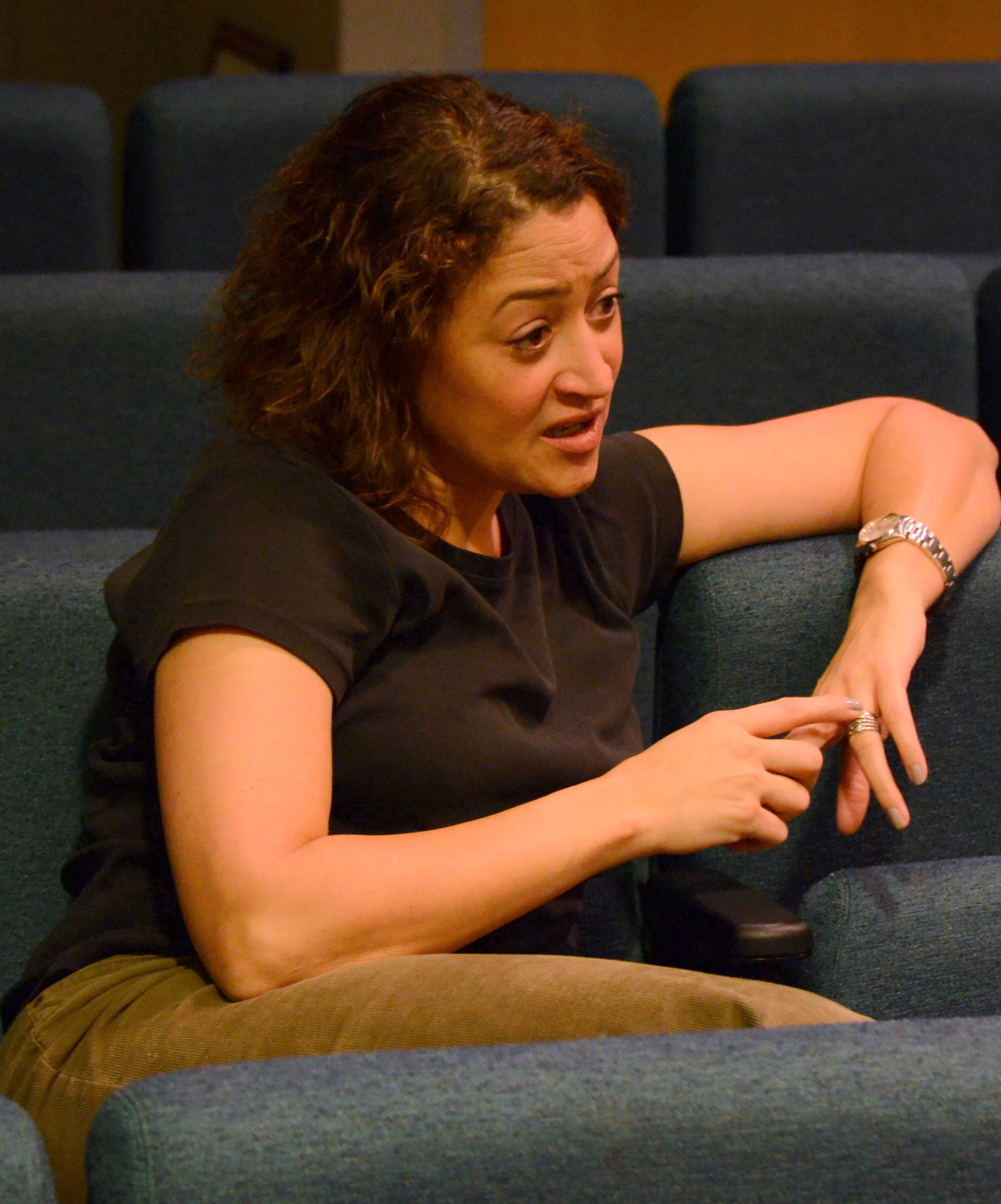 Tina Fernandes Botts, 4th Annual UNC Charlotte Philosophy Conference, 30–31 March 2012.